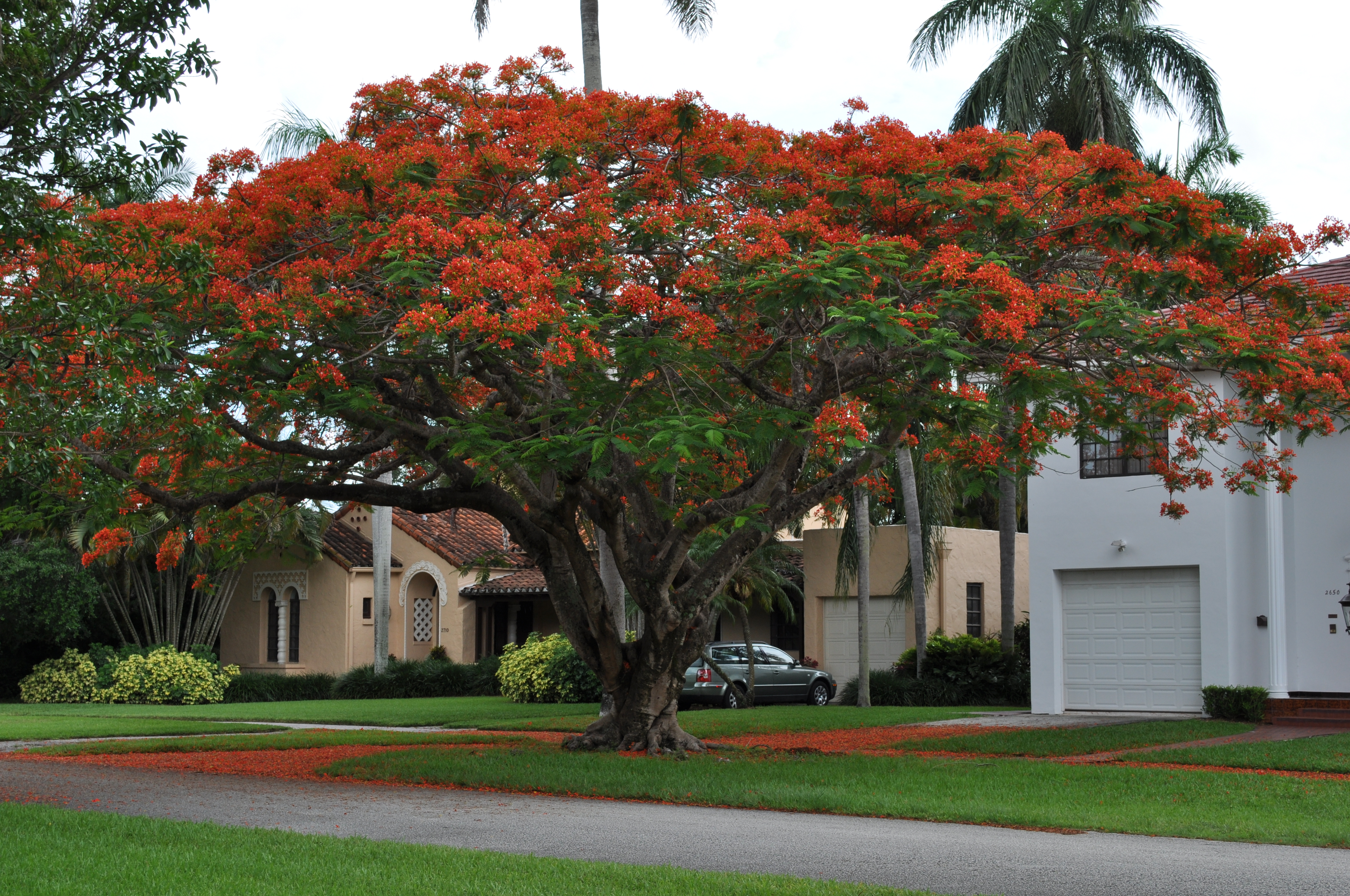 A mature, Coral Gables Royal Poinciana in full bloom.